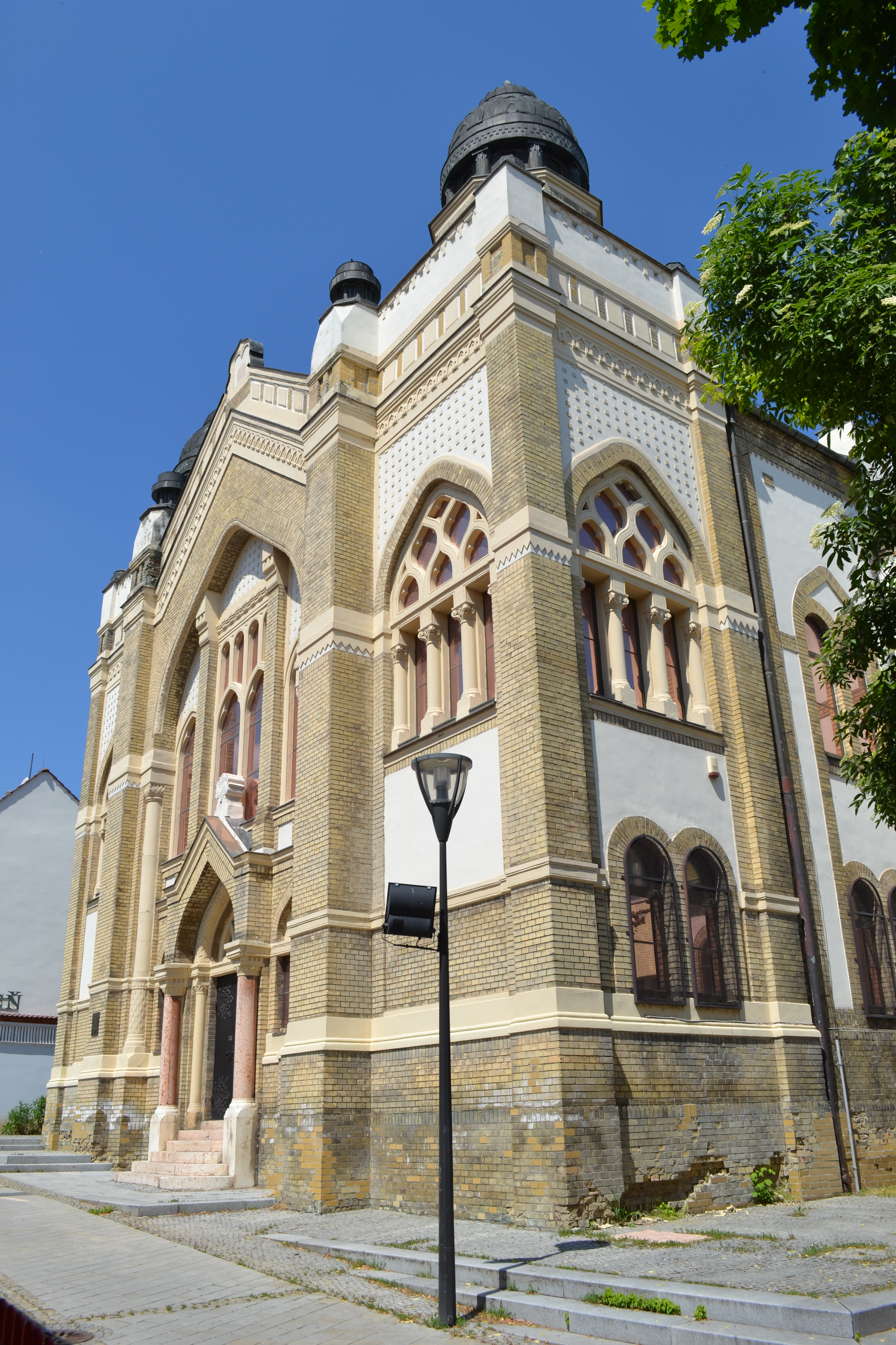 Synagogue in NitraSlovenčina: Synagóga v Nitre